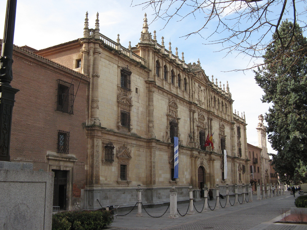 University of Alcalá de Henares (Community of Madrid, Spain).